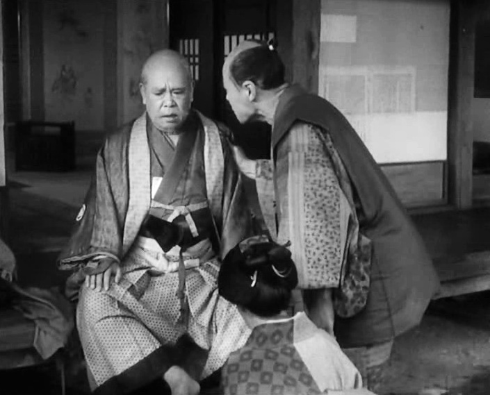 Screenshot from The Life of Oharu, 1952 film.